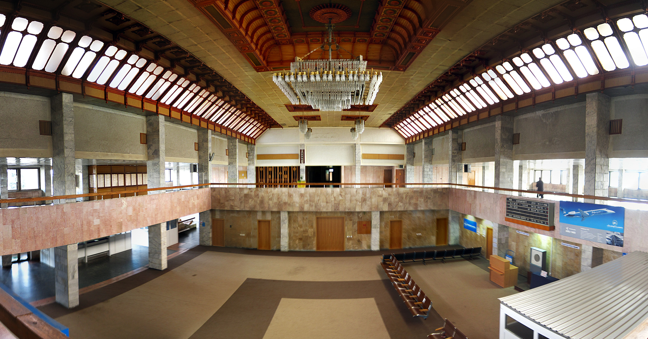 Ivano-Frankivsk International Airport (interior)